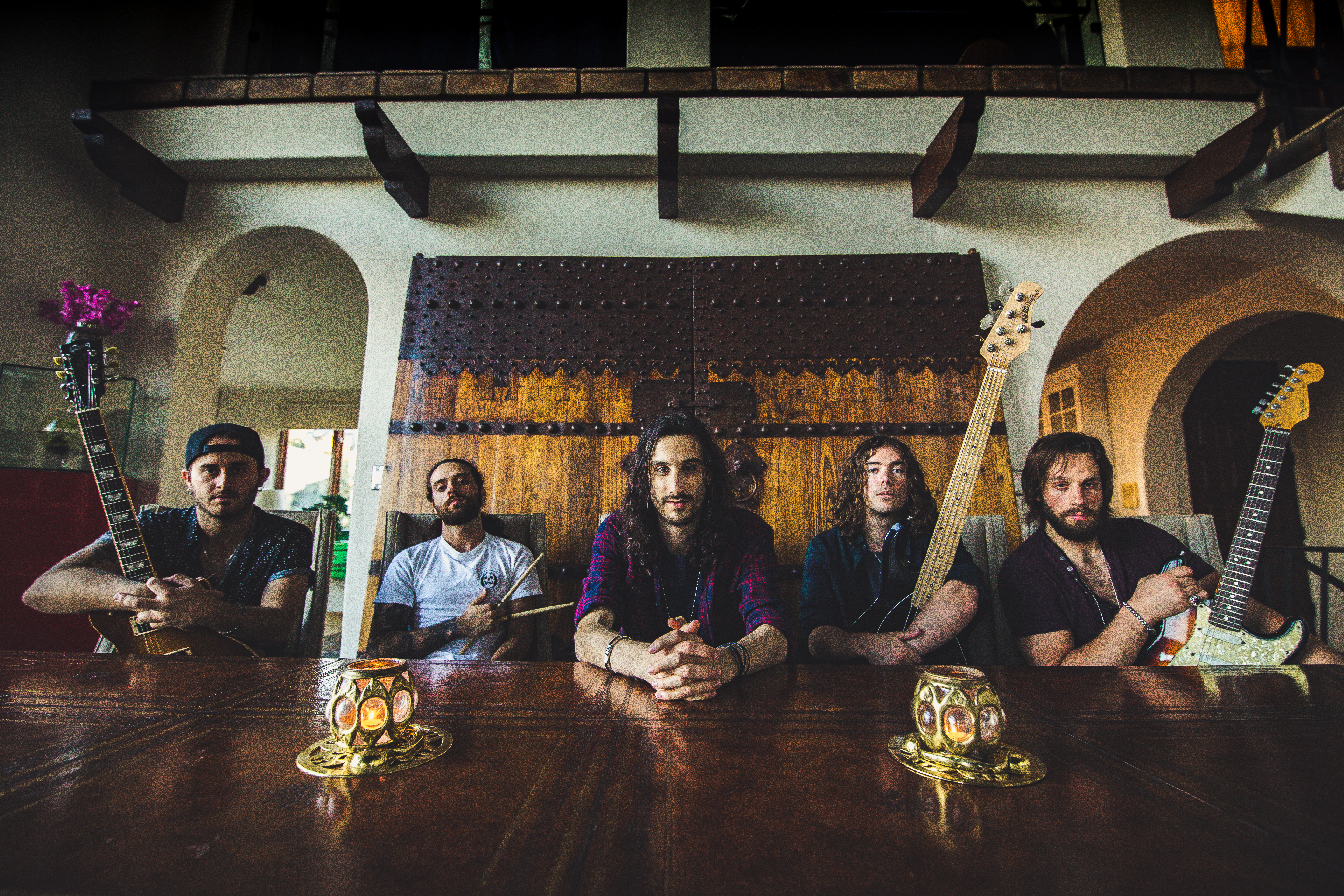 Bad Moon Born Photoshoot Hollywood Hills